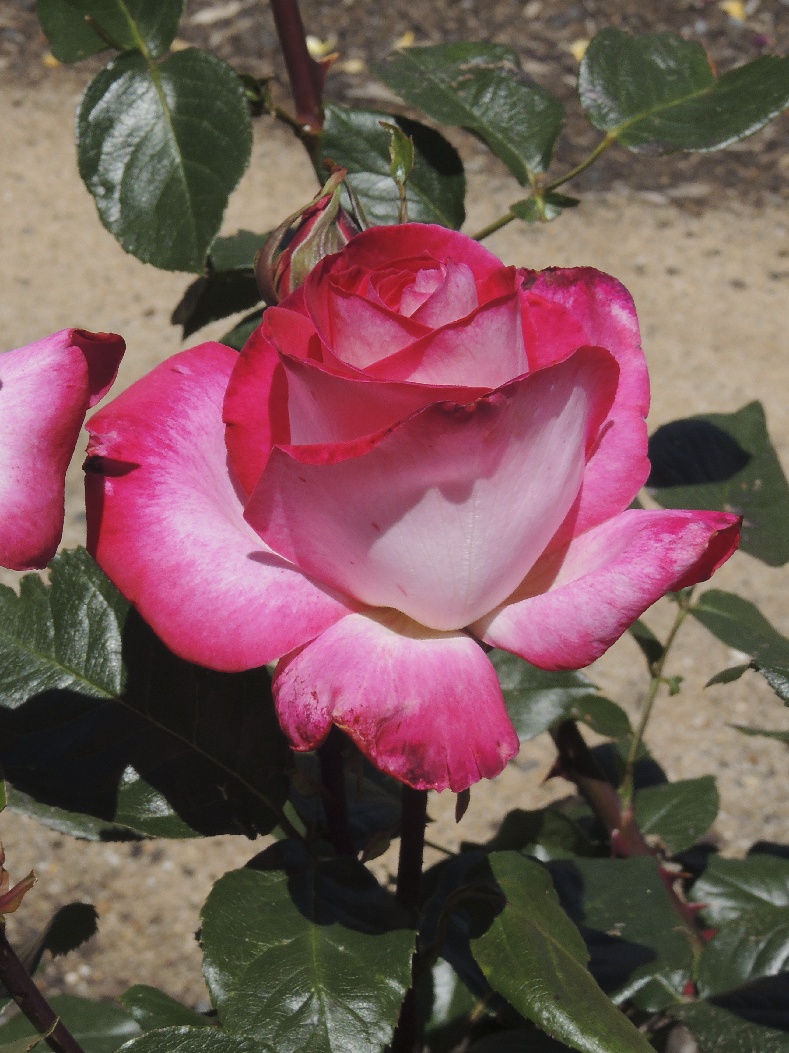 Rose 'Rose Gaujard', Hybrid Tea bred by Gaujard 1958